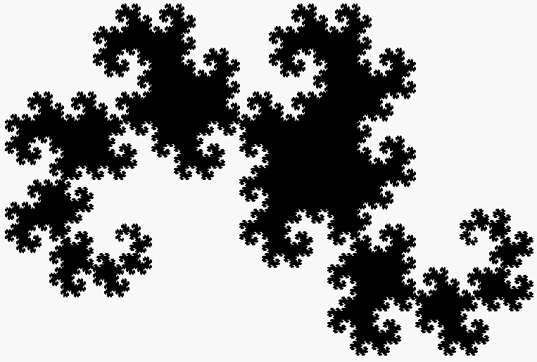 Made by Romero Schmidtke